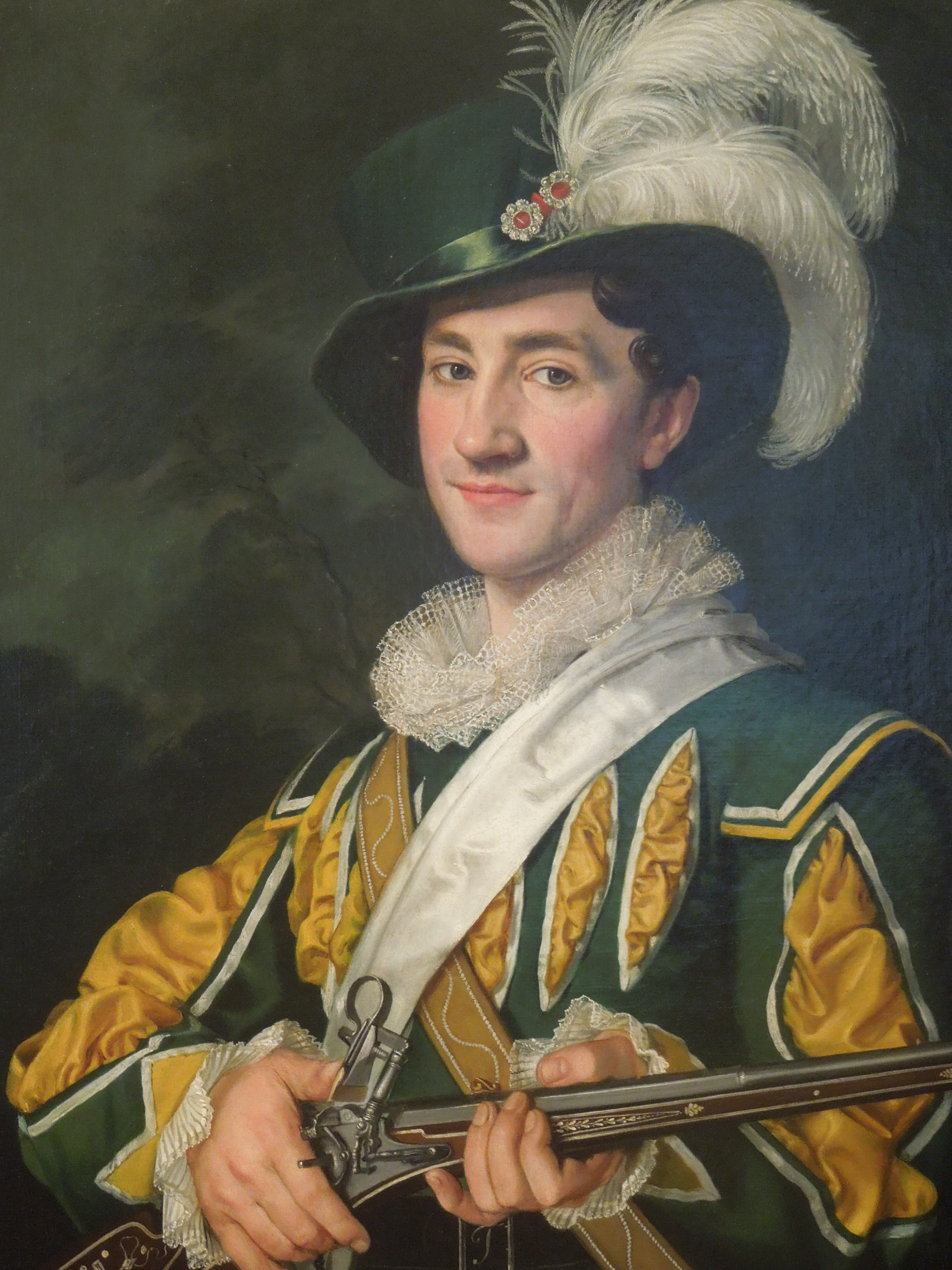 Alois Jelen in the Role of Max from Der Freischütz (1826)